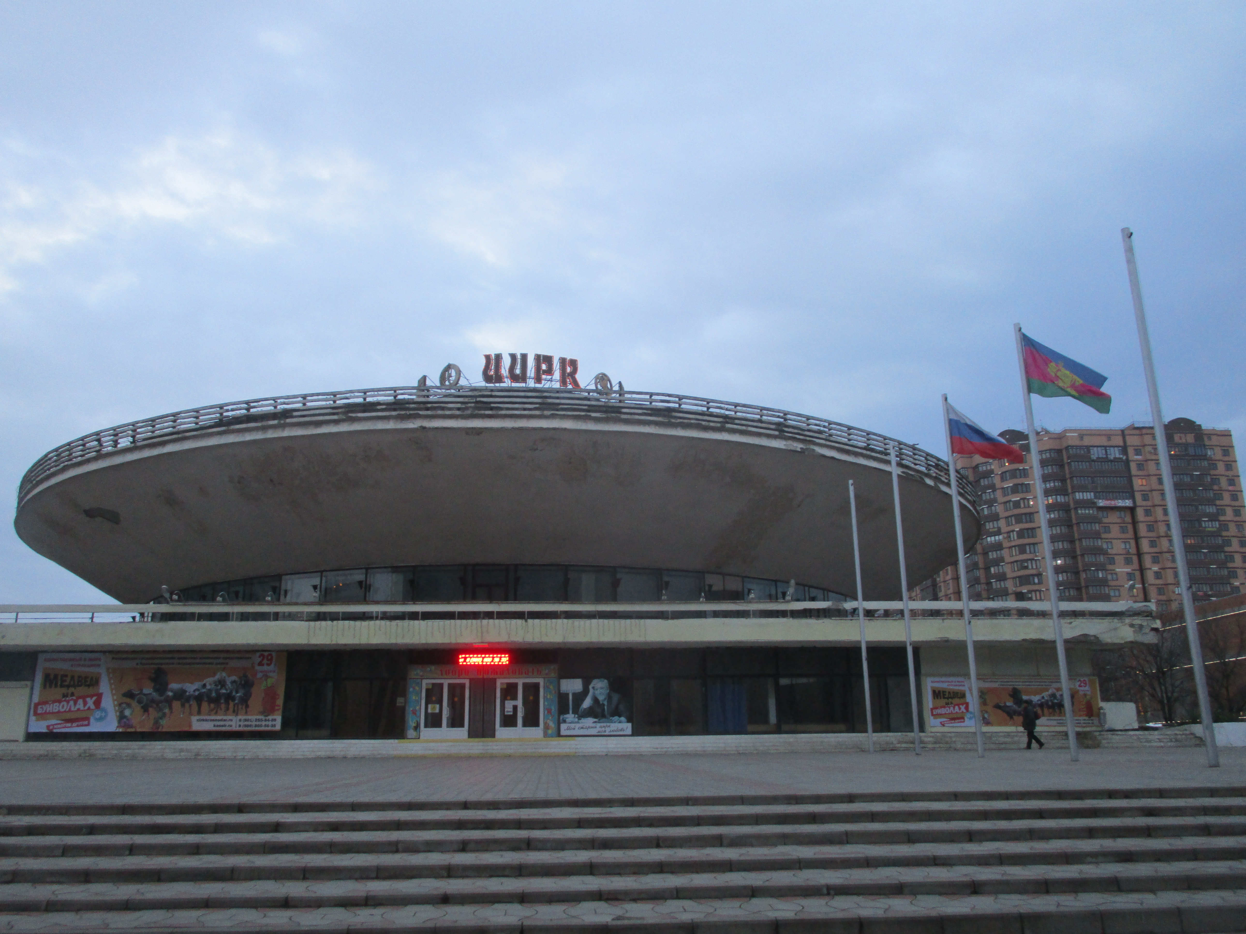 Krasnodar circus